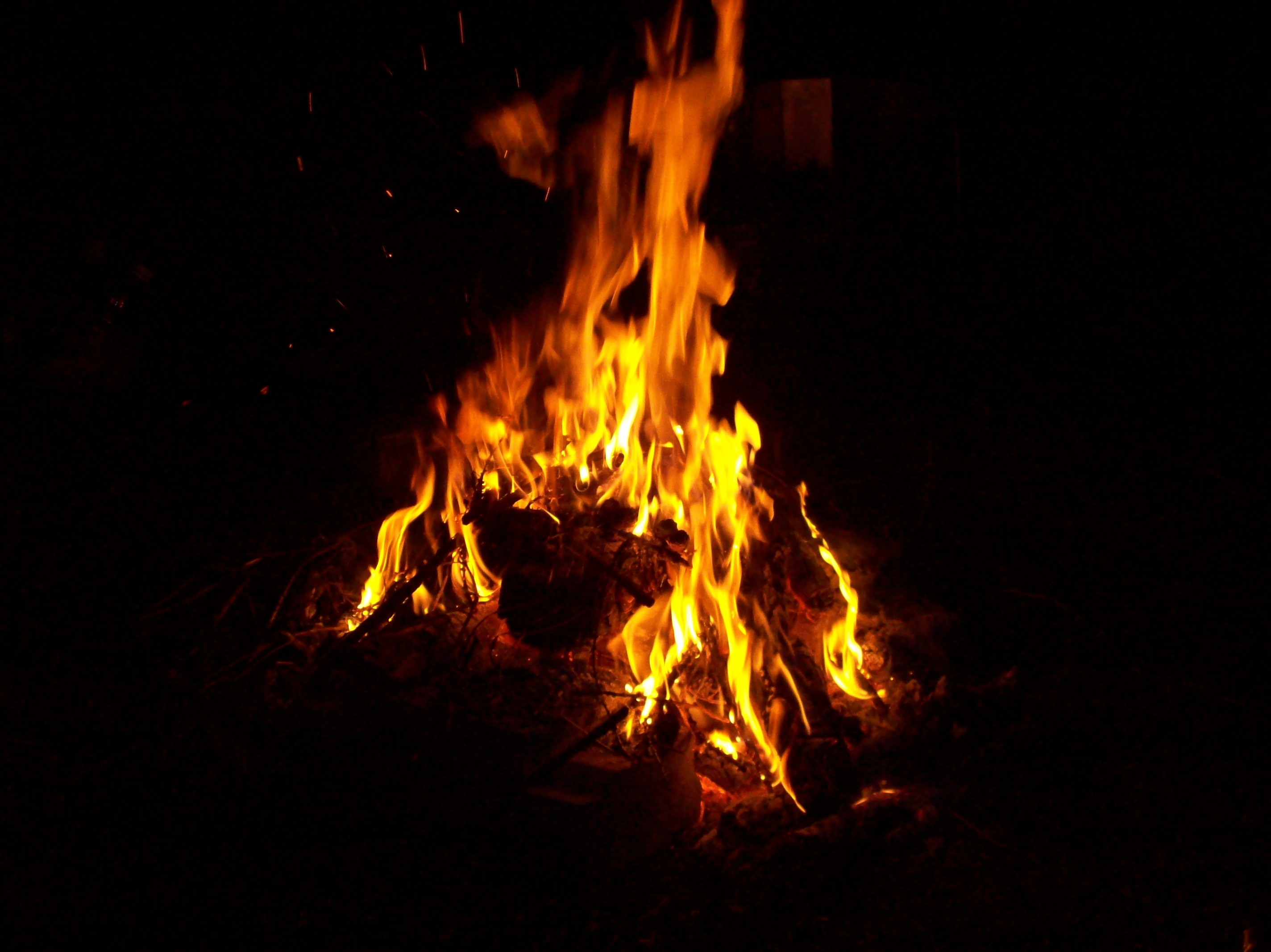 Kippel, Valais, Switzerland